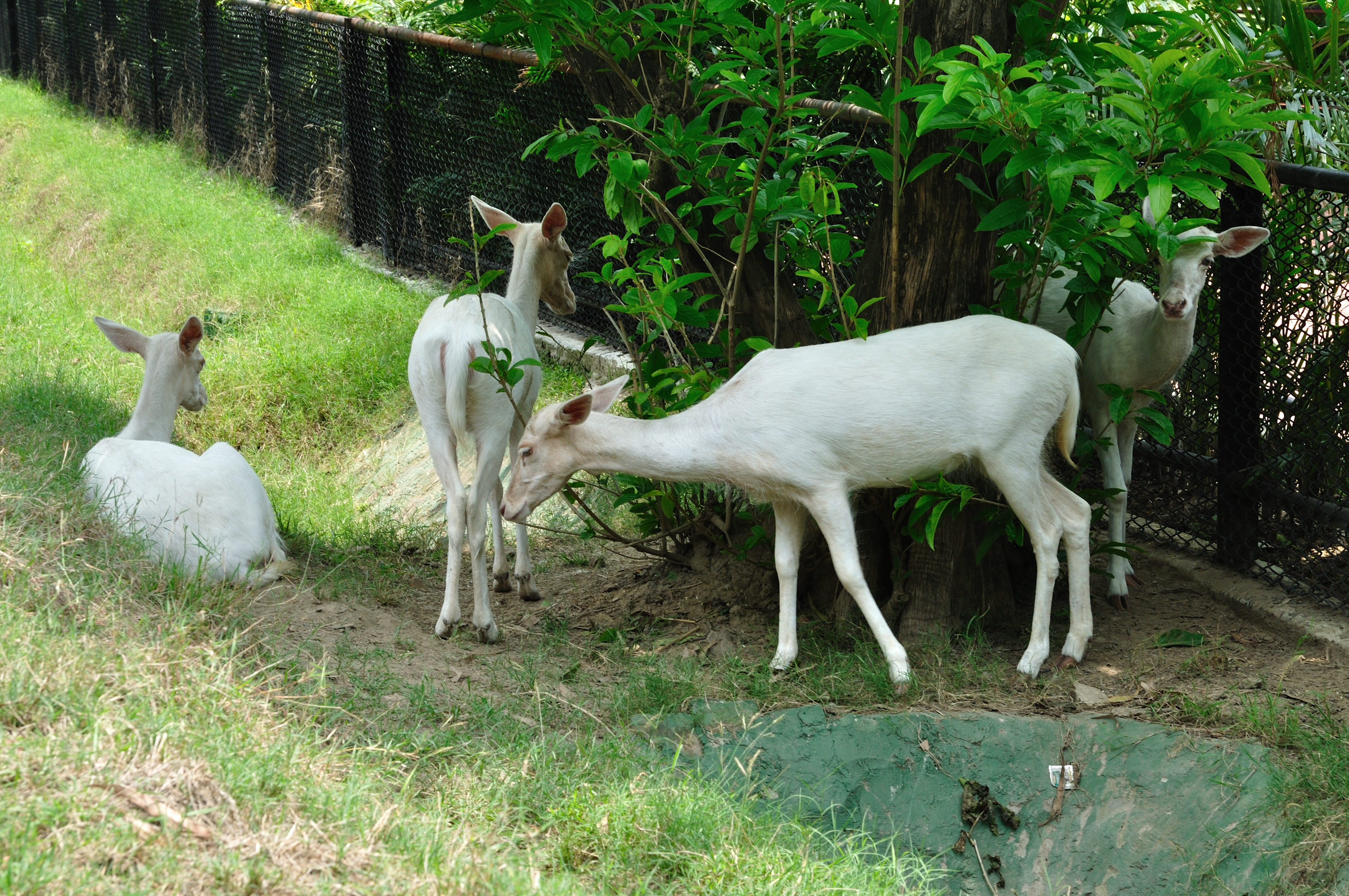 The Fallow Deer (Dama dama) is a ruminant mammal belonging to the family Cervidae. This common species is native to western Eurasia, but has been introduced widely elsewhere. This white variant of Fallow Deers in Alipore Zoological Garden, Kolkata.